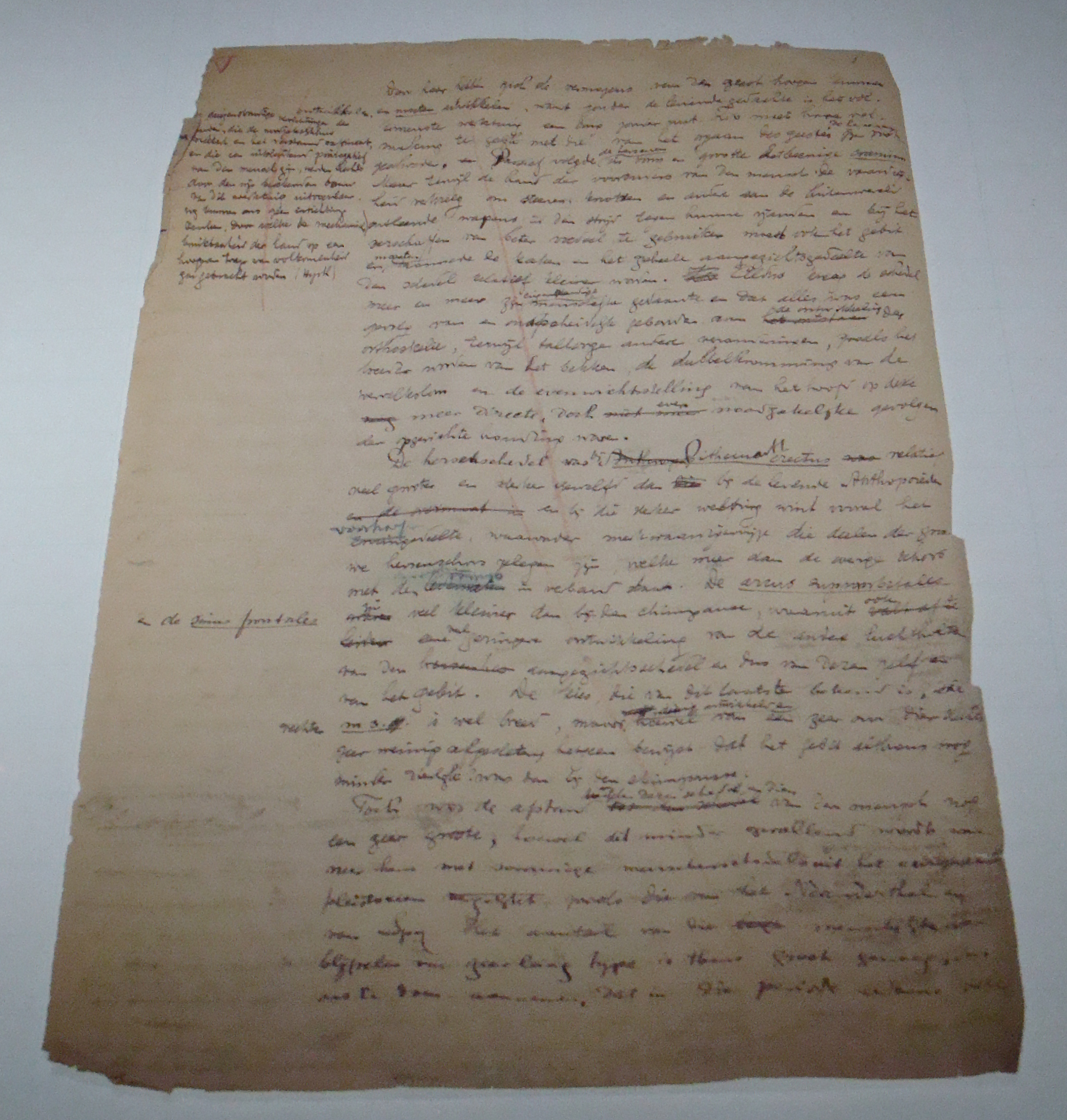 Manuscript in which Eugene Dubois introduces the name 'ape-man'. It was on display at the exhibition 'Dubois' in the National Museum of Natural History 'Naturalis' in Leiden, the Netherlands. Dutch anatomist Eugene Dubois had been fascinated with Charles Darwin's theories of evolution, so set out to find an early human.(1890s) He first described the species as Pithecanthropus erectus ("upright ape-man"), based on a calotte (skullcap) and a modern-looking femur found from the bank of the Solo River at Trinil, in central Java. (This species is now regarded as Homo erectus.) His find is commonly referred to as Java Man.